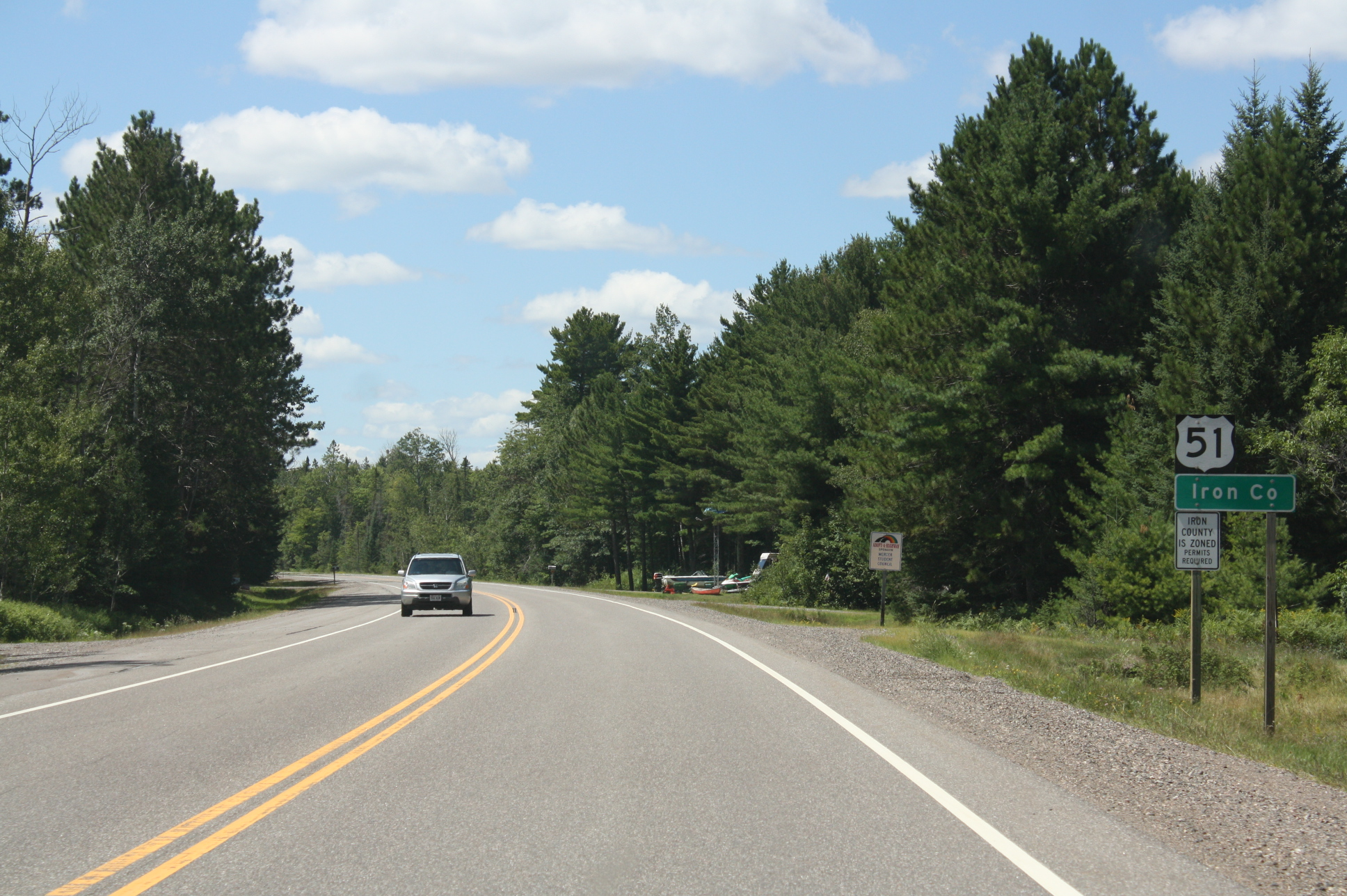 Looking north at the sign for Iron County, Wisconsin on U.S. Route 51.